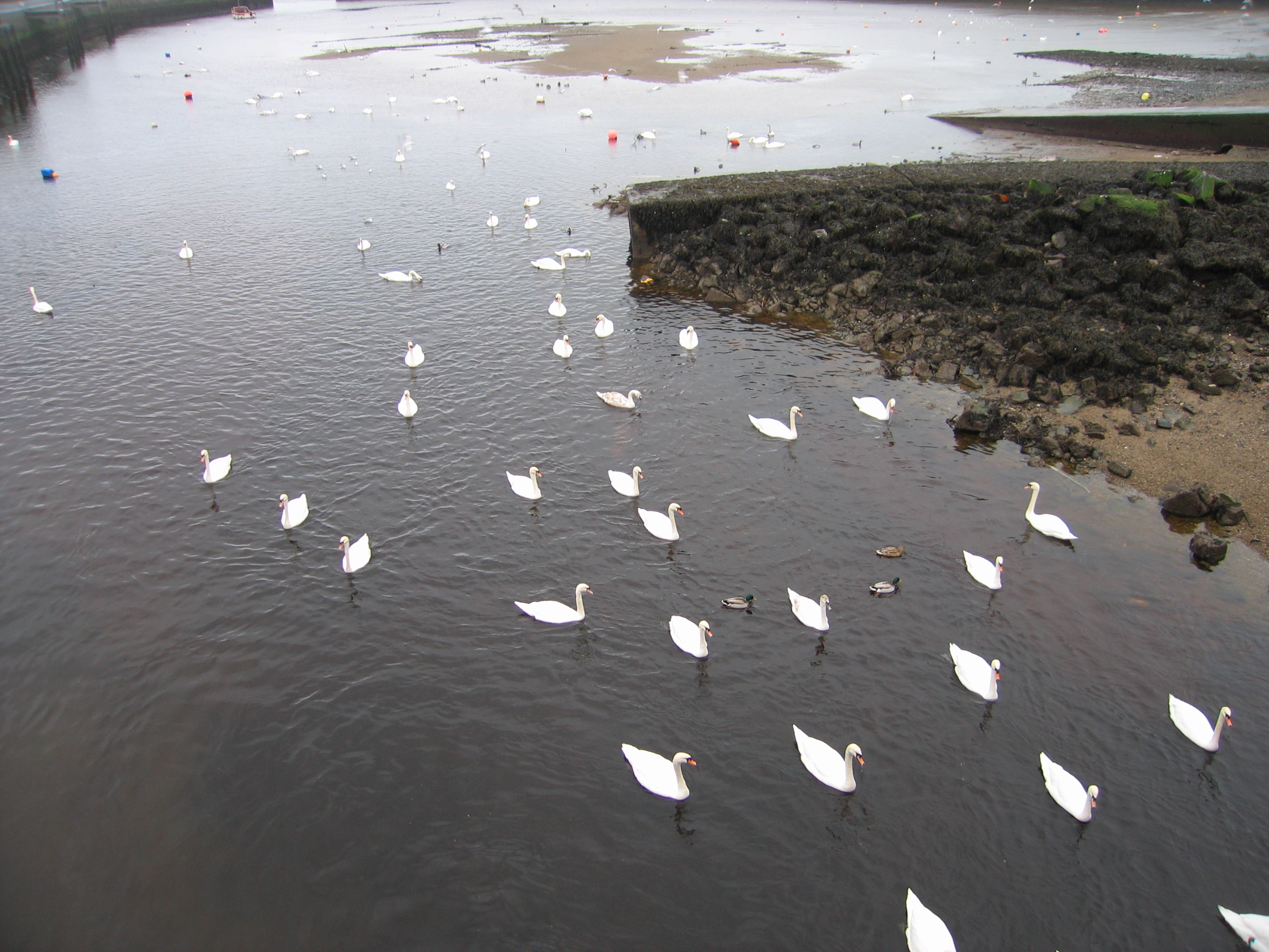 Swans where the River Dargle enters Bray Harbour